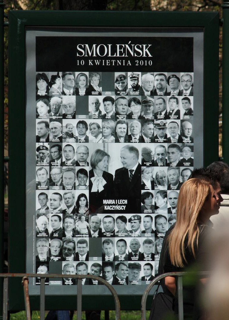 Pogrzeb pary prezydenckiej